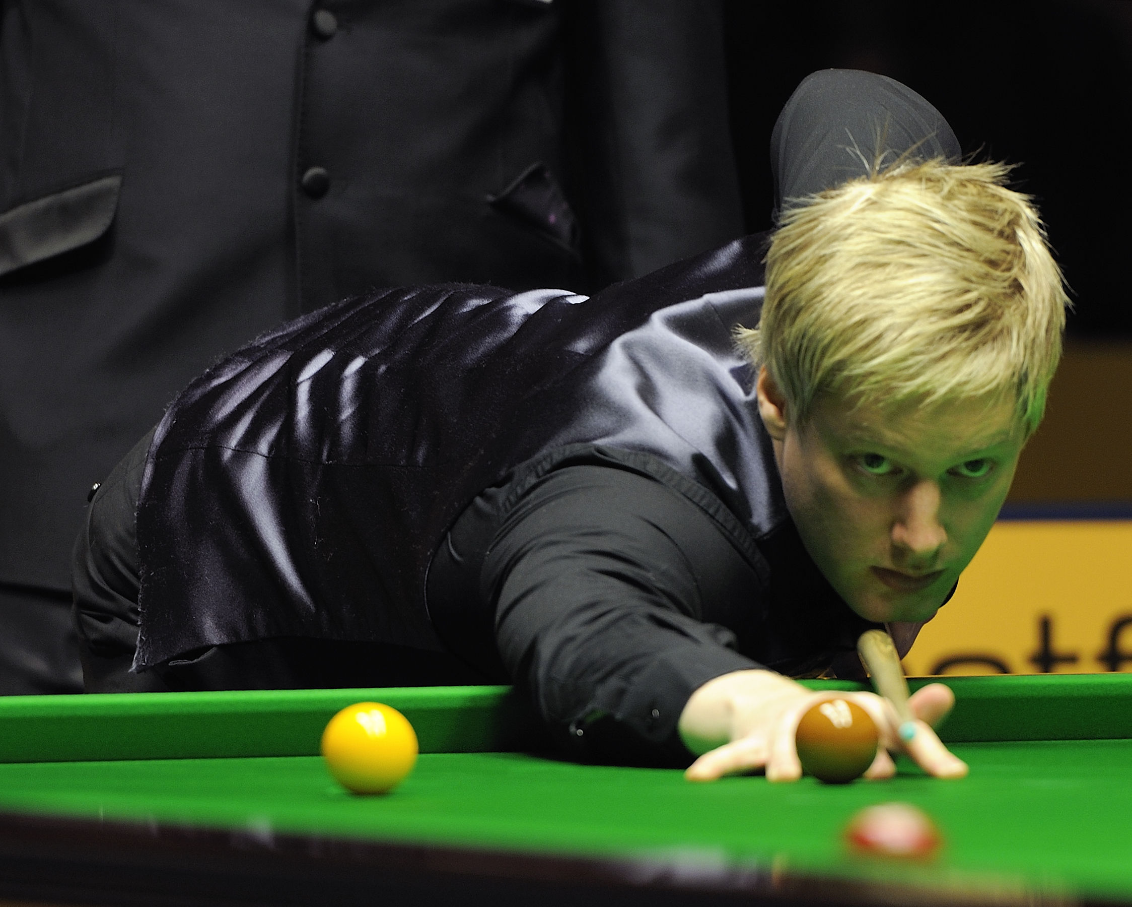 Picture taken in Berlin during the Snooker German Masters in 2013. Neil Robertson.